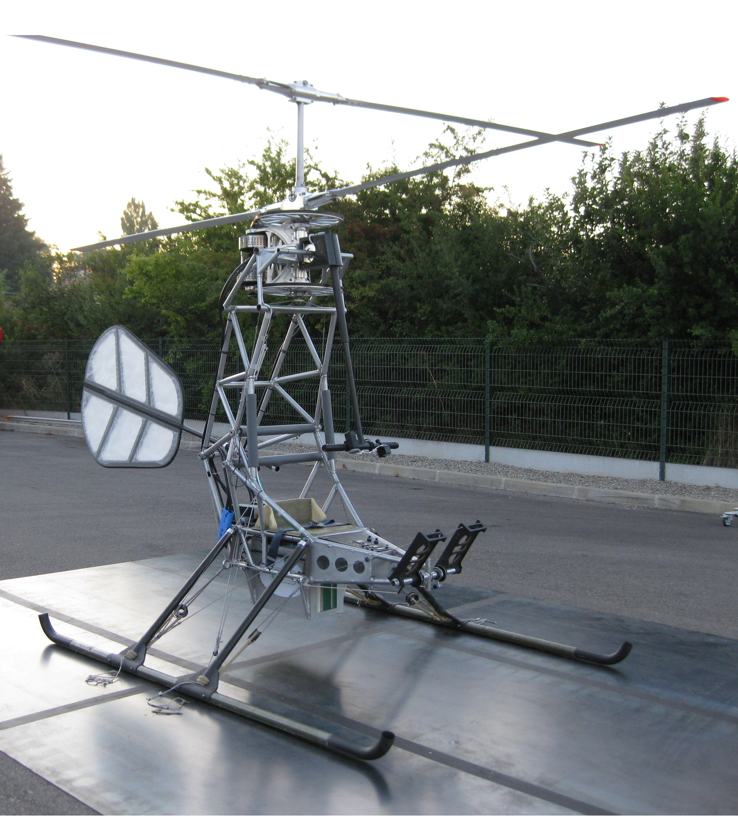 World's First manned electric helicopter